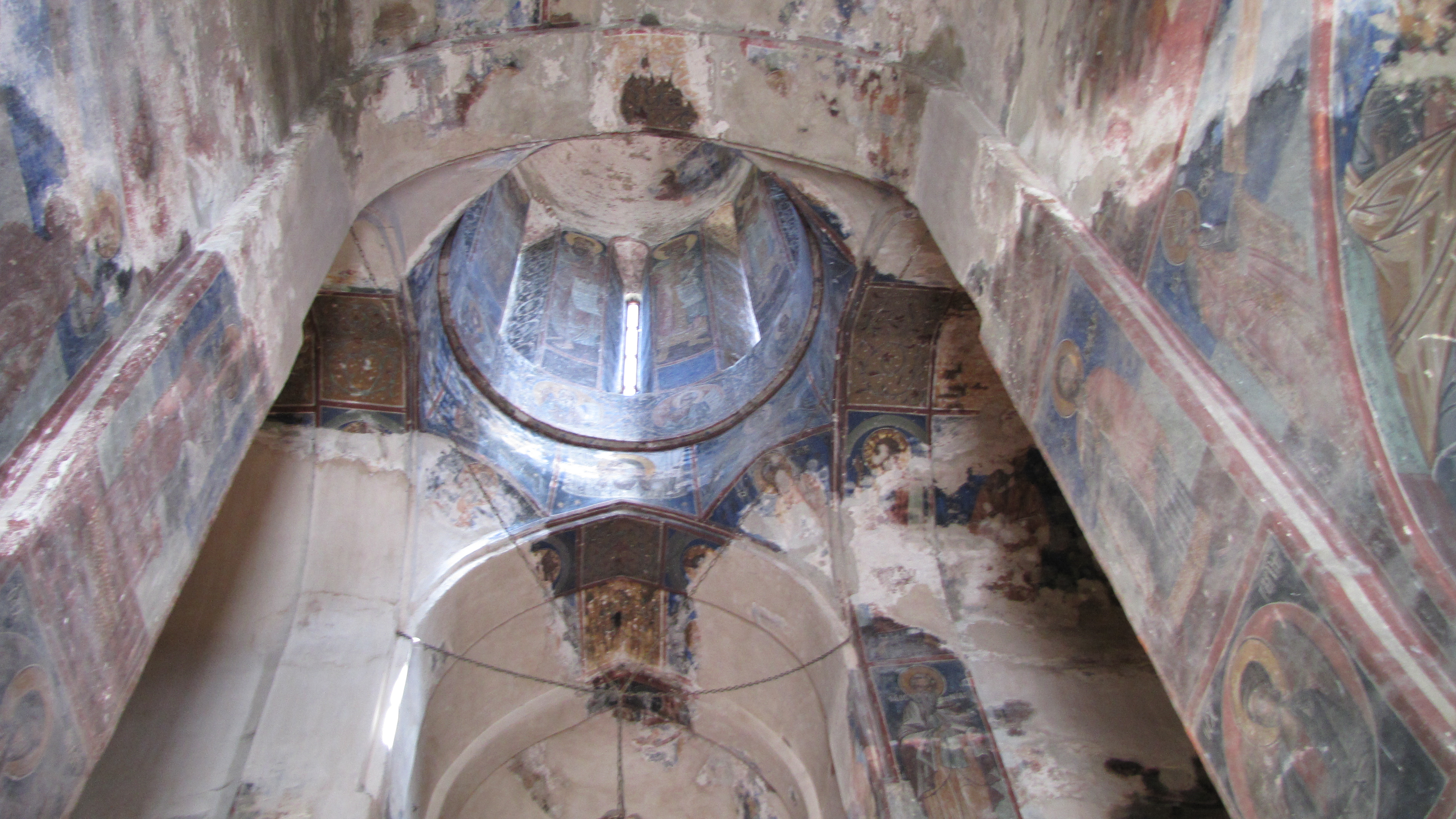 Church of the Archangels, Gremi